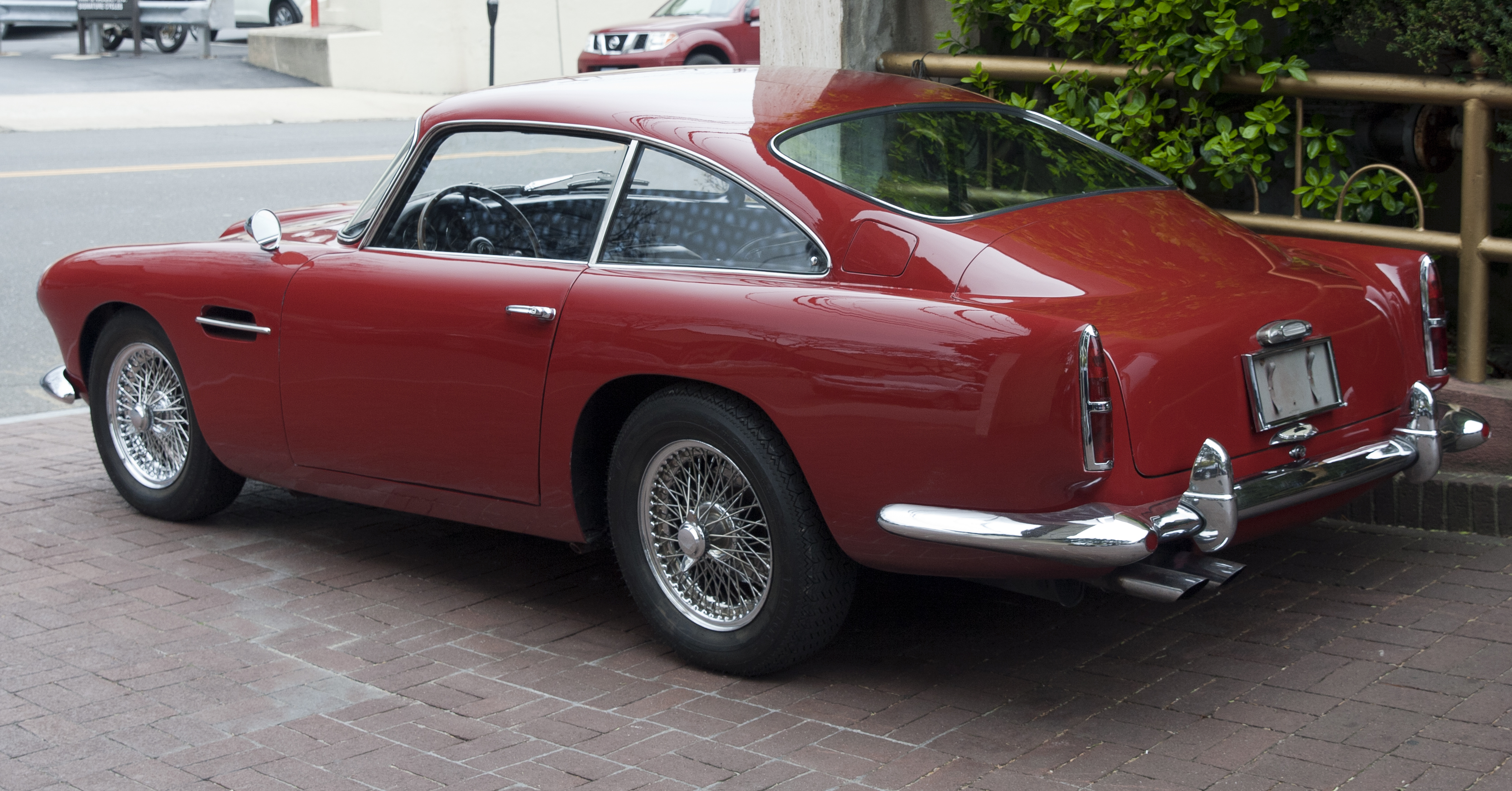 1960 Aston Martin DB4, a late version Series I without door frames but with heavy duty bumpers with overriders. Original LHD.